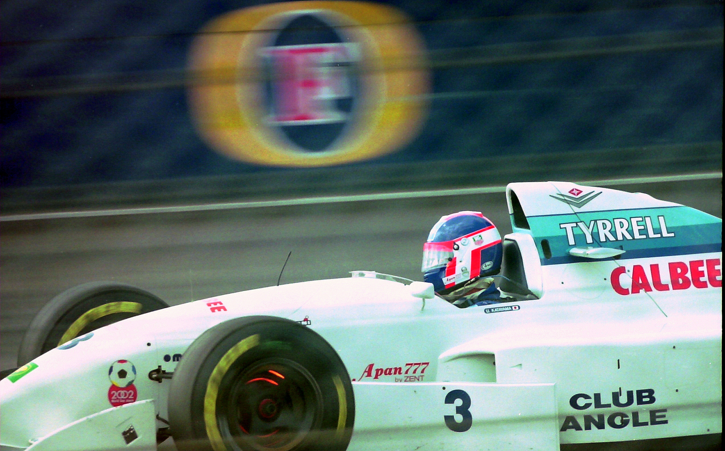 Ukyo Katayama - Tyrrell 022 at the 1994 British Grand Prix